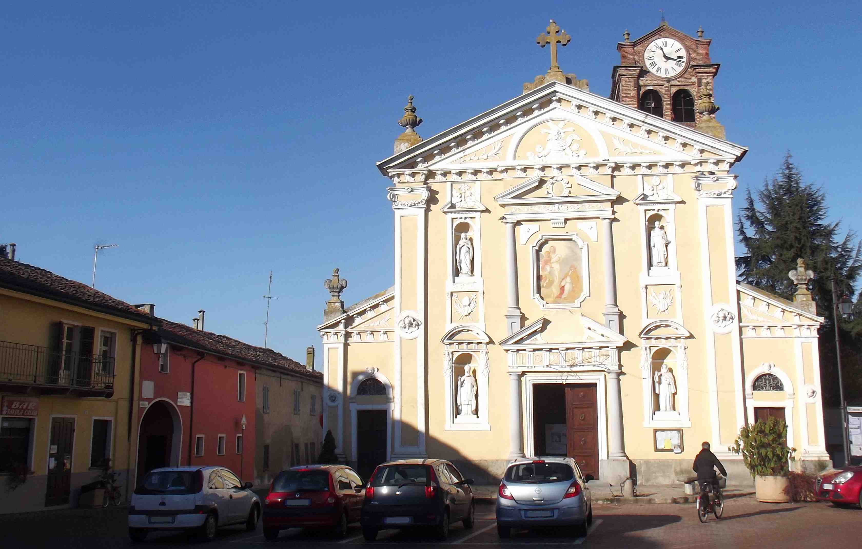 Faule (CN, Italy): parish church of San Biagio